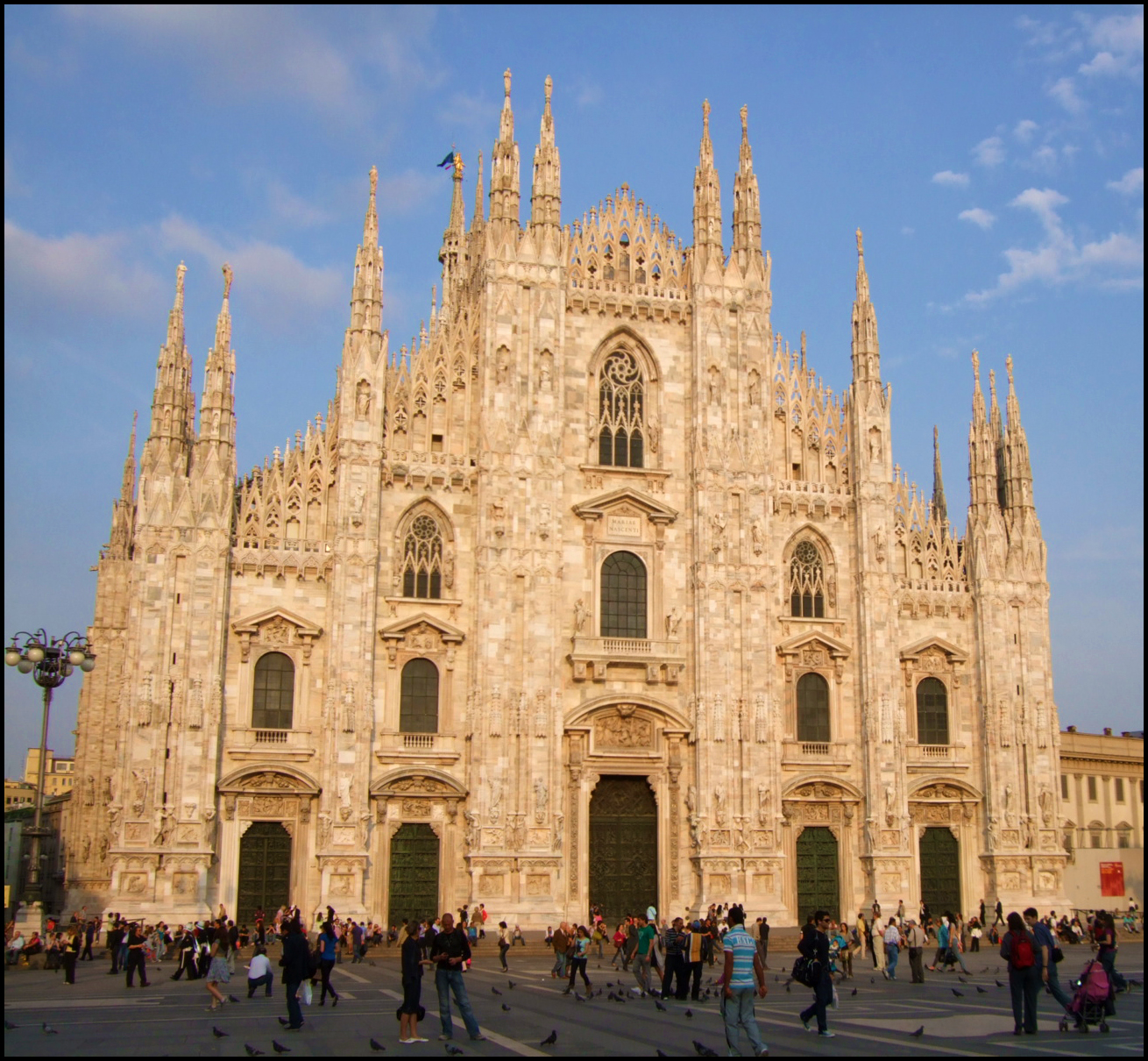 Milan Cathedral - facade